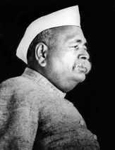 A portrait of Govind Ballabh Pant taken in May 1952